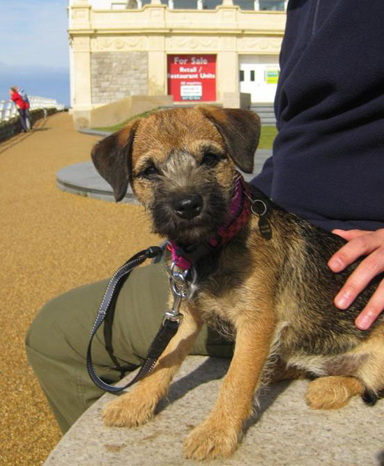 Picture of a female Border Terrier puppy ages 4 months.